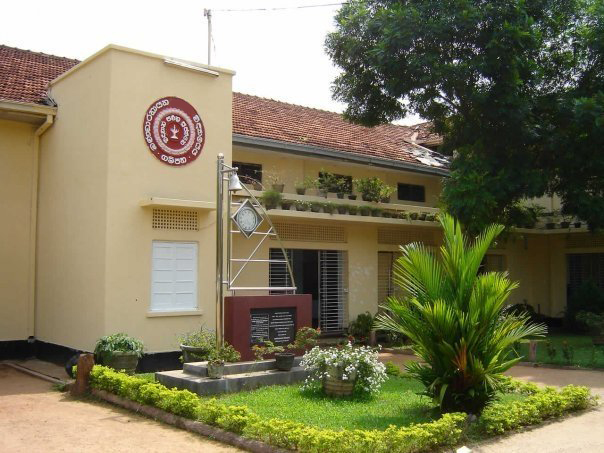 Bandaranayake College, Gampaha, Sri Lanka, front view.